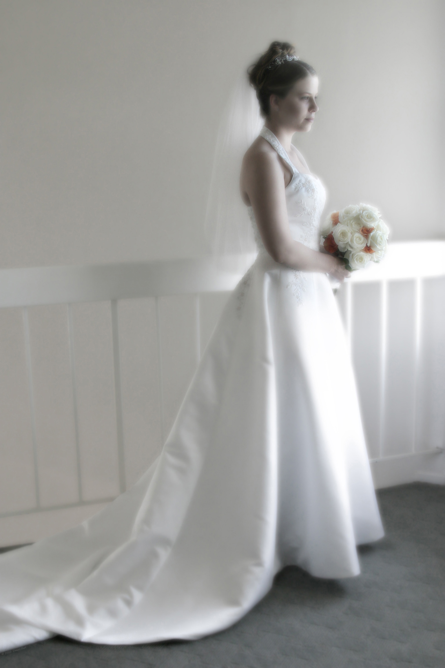 A bride in a very traditional long white wedding dress with train, tiara, bouquet and white veil.